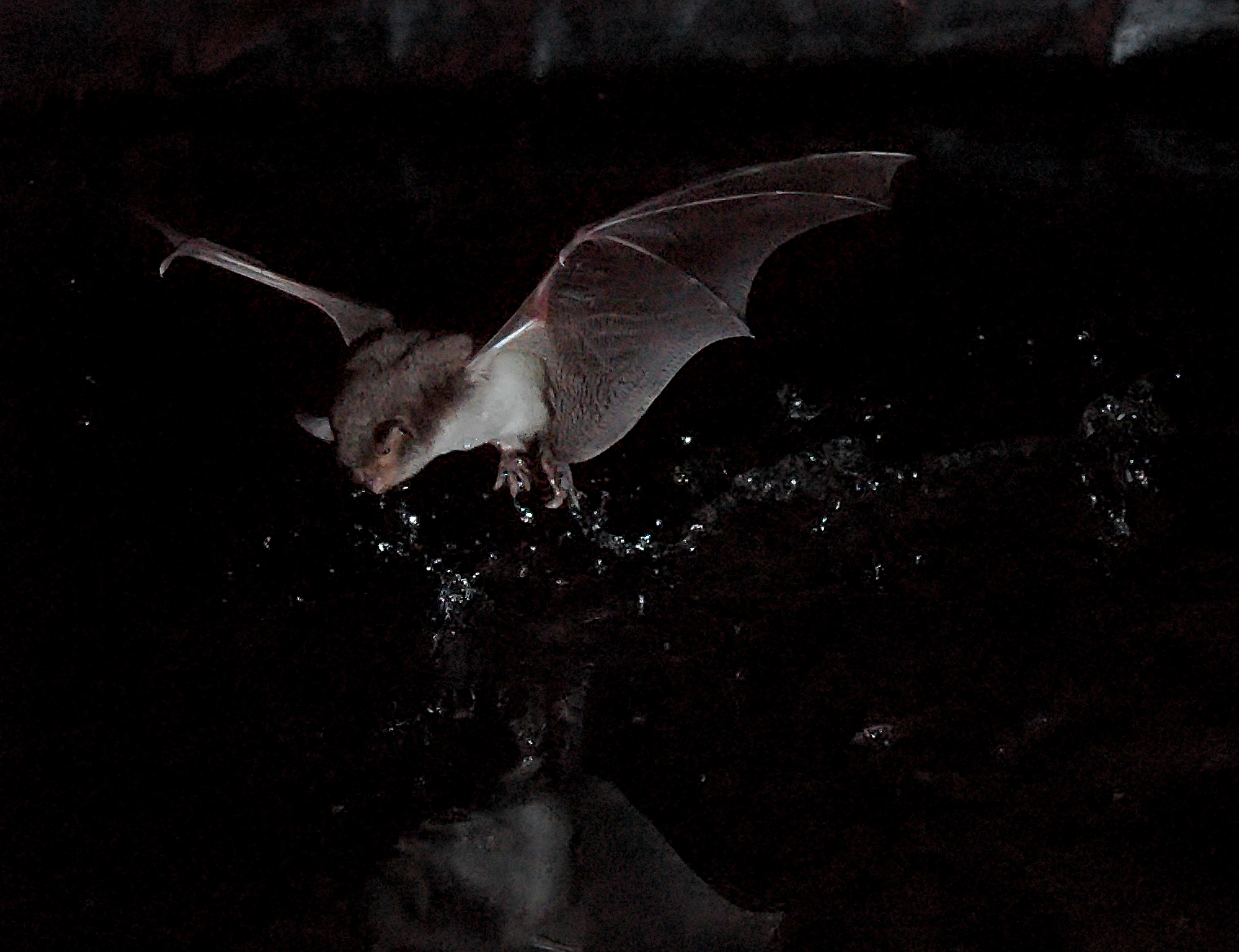 Long Fingered Bat, Myotis capaccinii